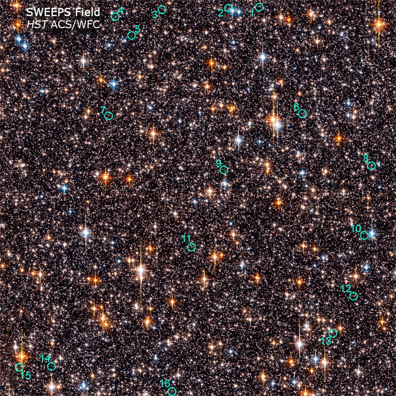 NASA's Hubble Space Telescope has discovered 16 extrasolar planet candidates orbiting a variety of distant stars in the central region of our Milky Way galaxy. The planet bonanza was uncovered during a Hubble survey, called the Sagittarius Window Eclipsing Extrasolar Planet Search (SWEEPS). Hubble looked farther than has ever successfully been searched for extrasolar planets. Hubble peered at 180,000 stars in the crowded central bulge of our galaxy 26,000 light-years away. That is one-quarter the diameter of the Milky Way's spiral disk. The SWEEPS 16 extrasolar planet candidate locations are noted on this image.